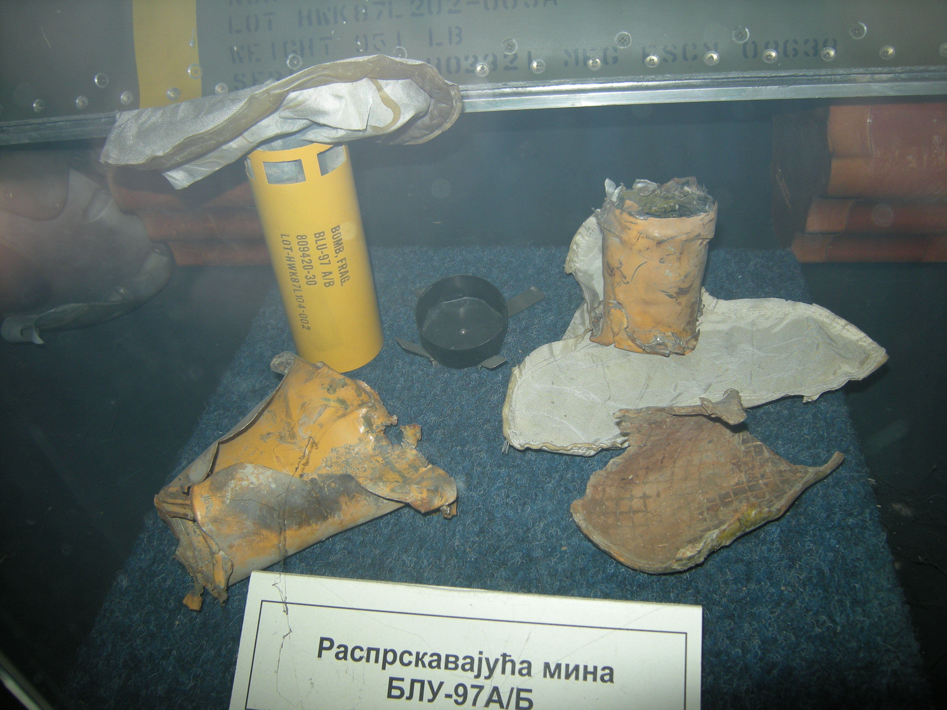 [1] BLU-97 A/B in Museum of Aviation in Belgrade